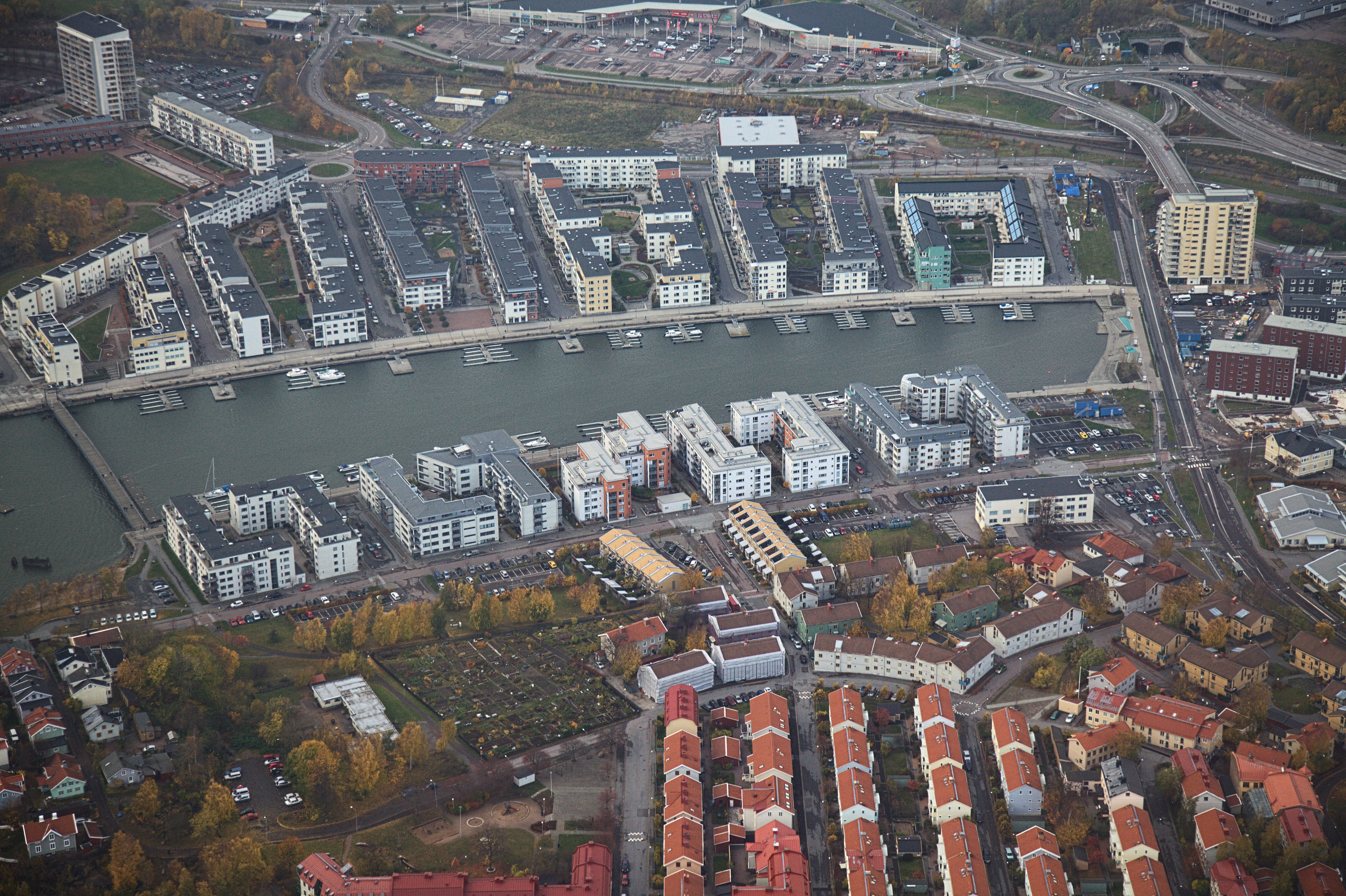 Photo taken on a helicopter over Gothenburg